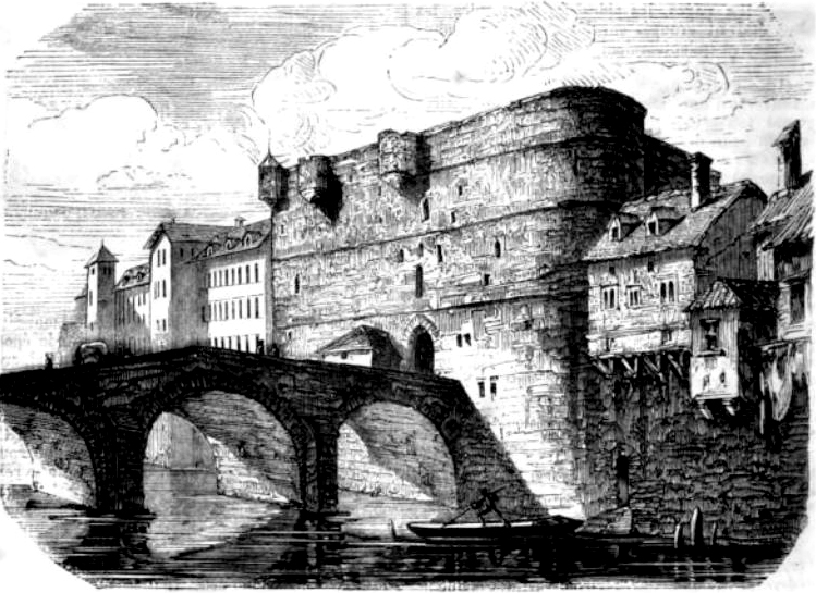 The Petit Châtelet of Paris